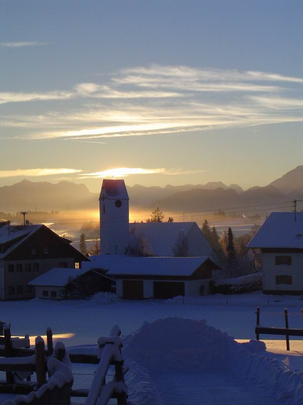 Kirche von Maria Rain im Winter Foto by Tobias Sckerl